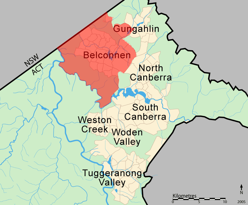 ACT electorate of Ginninderra, as depicted at [1]